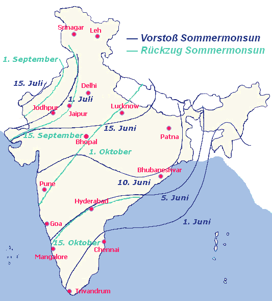 Map of onset/withdrawal of the indien summer (see blank version)